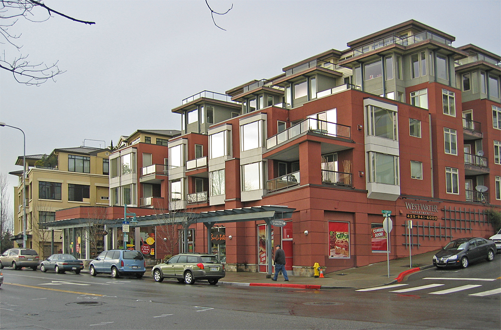 Mixed-use infill development supports walkable downtown Kirkland. This work is licensed under a Creative Commons Attribution 3.0 United States License.